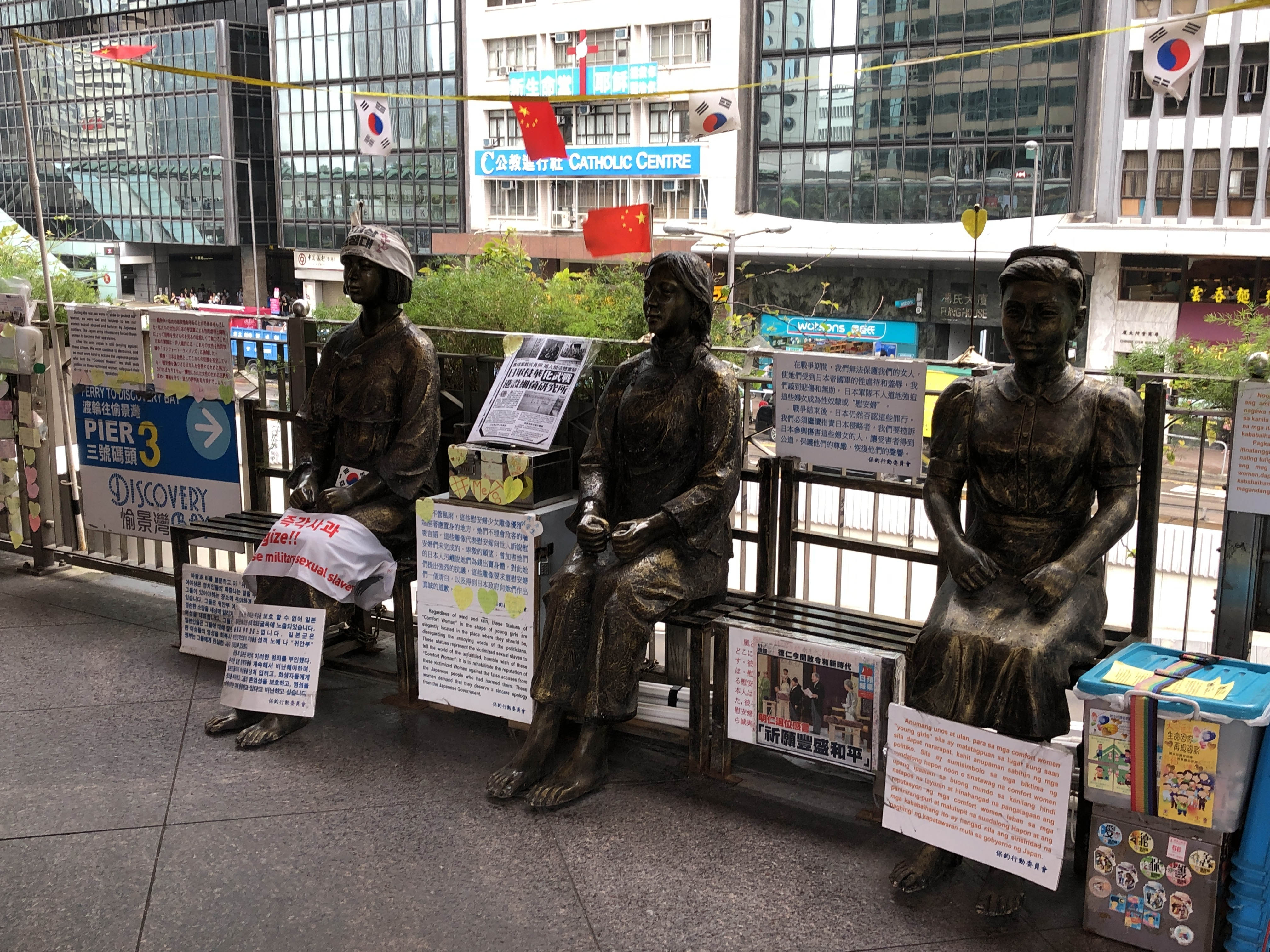 Statue of comfort women during World War II in Central near the IFC Mall.